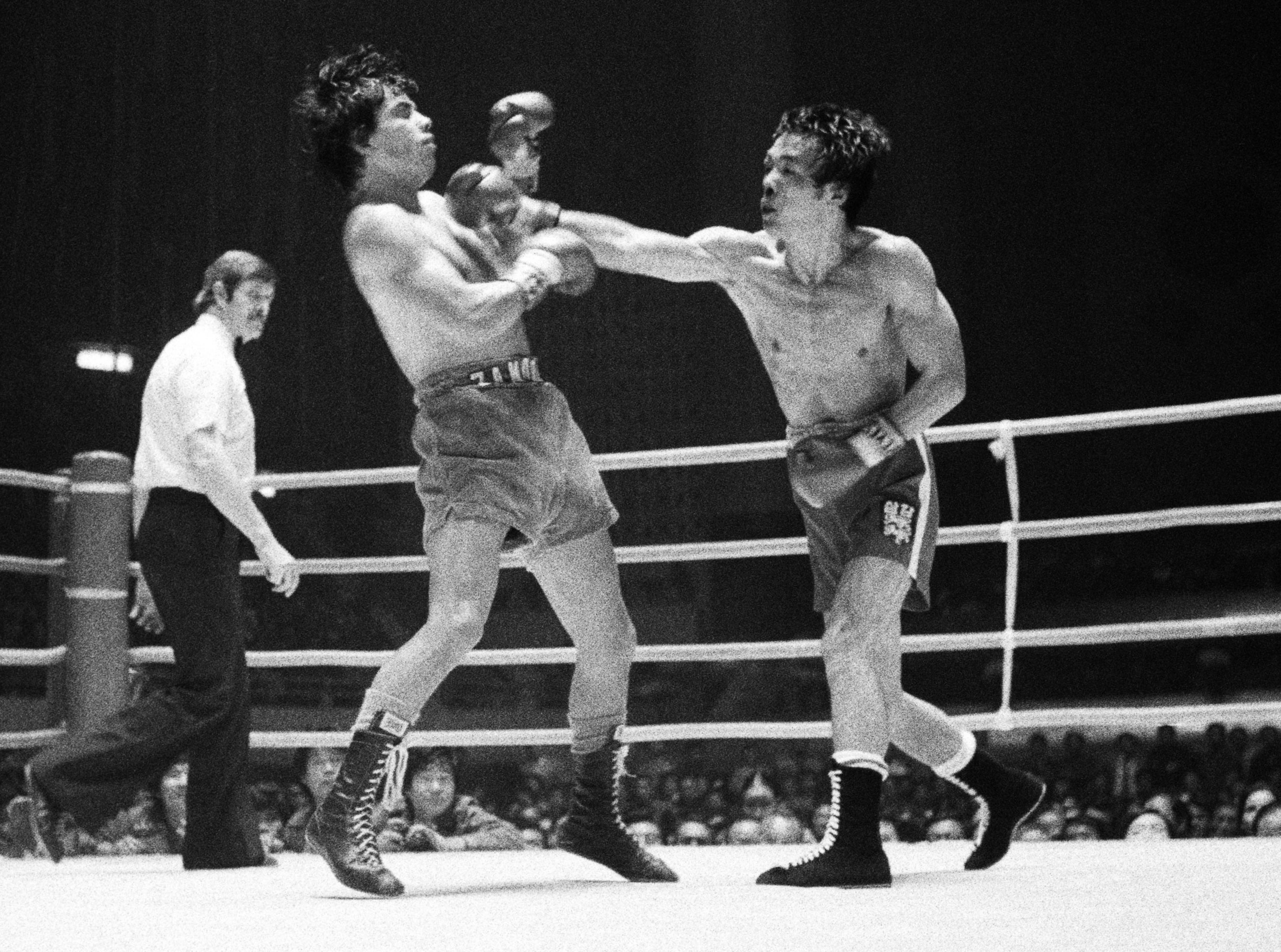 Alfonso Zamora (on the left) vs. Soo-Hwan Hong for the WBA bantamweight title at Sunin Gymnasium, Incheon, South Korea on Ooctober 16, 1976.